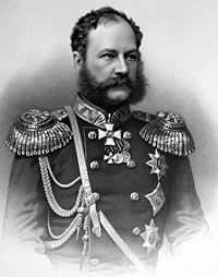 Aleksandr Ivanovich Baryatinsky